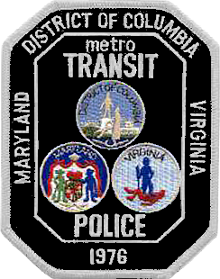 Patch of the Metro Transit Police Department (MTPD). As the work of a U.S. federal agency, in this case, the MTPD, it is in the public domain.